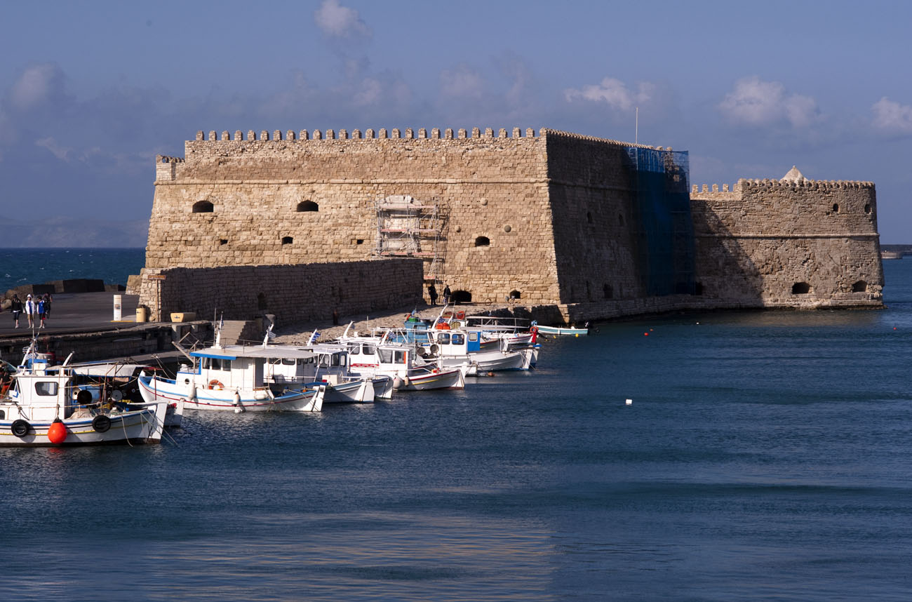 The Venetian fortress Koule (Rocca al Mare) in Heraklion, Crete